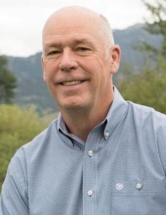 Greg Gianforte pre-official photo